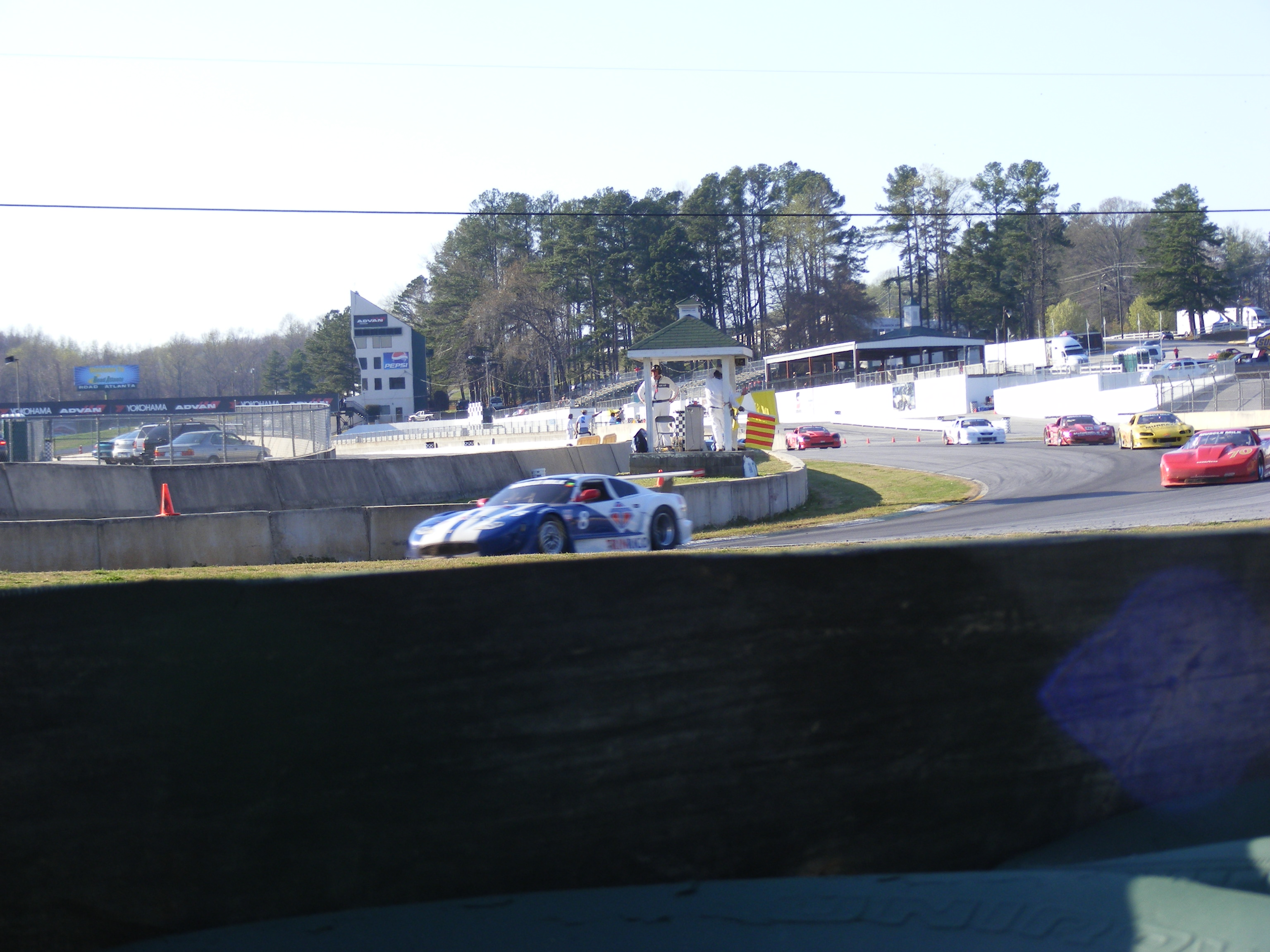 Trans-Am Series cars at Road Atlanta in 2009